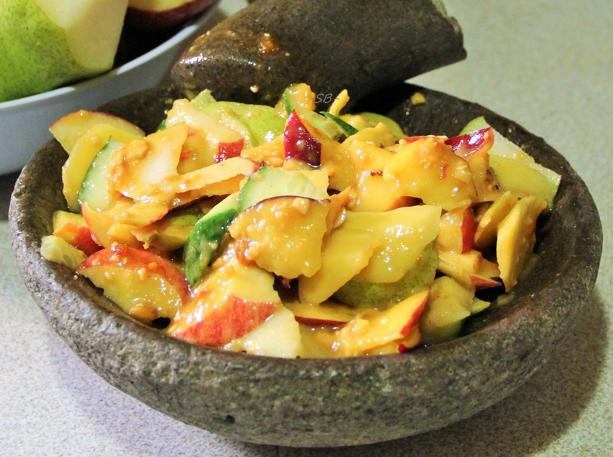 Rujak Buah is an Indonesian Fruit Salad. It is made of a mixture of fruits and spicy peanut sauce. Pestle and mortar sets are commonly used to make the sauce and to toss the mixture.